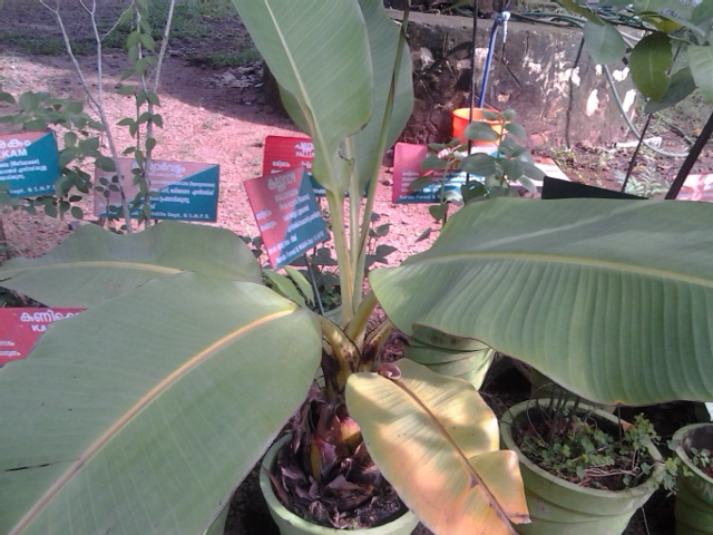 Kallluvazha Banana medicinal Plantain seen in Konni